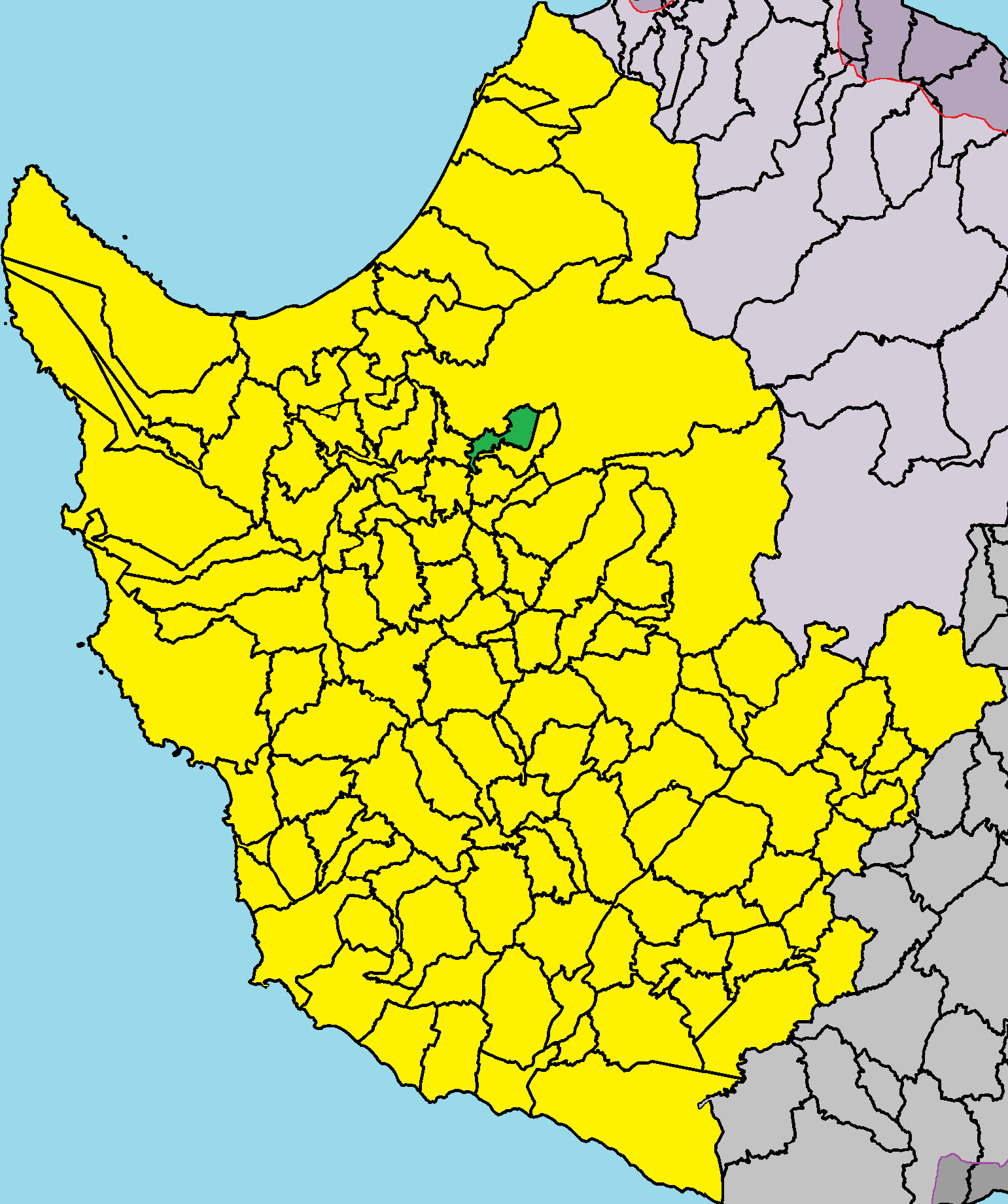 Melandra, Cyprus in Paphos District.